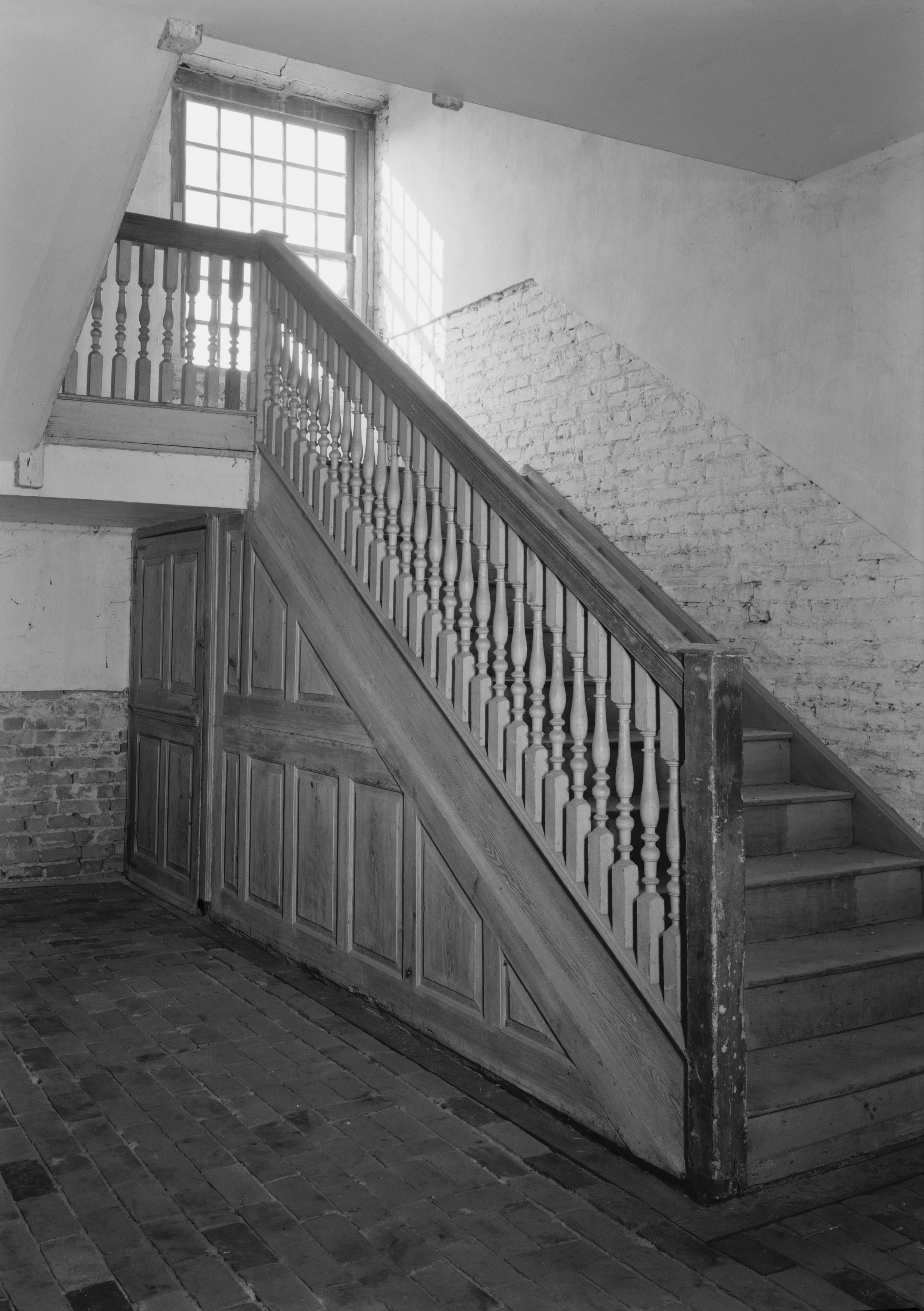 Stairway in the Central Hall of Primitive Hall in West Marlborough Township, Chester County, Pennsylvania. The building has been on the NRHP since 1975. Built by Joseph Pennock in 1738